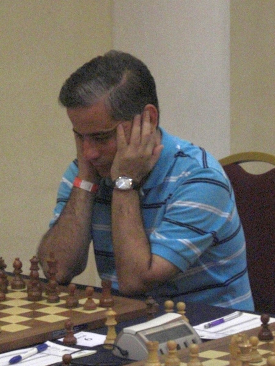 Jesus Nogueiras Santiago during the American Continental Chess Championship in Toluca (Mexico), April 2011